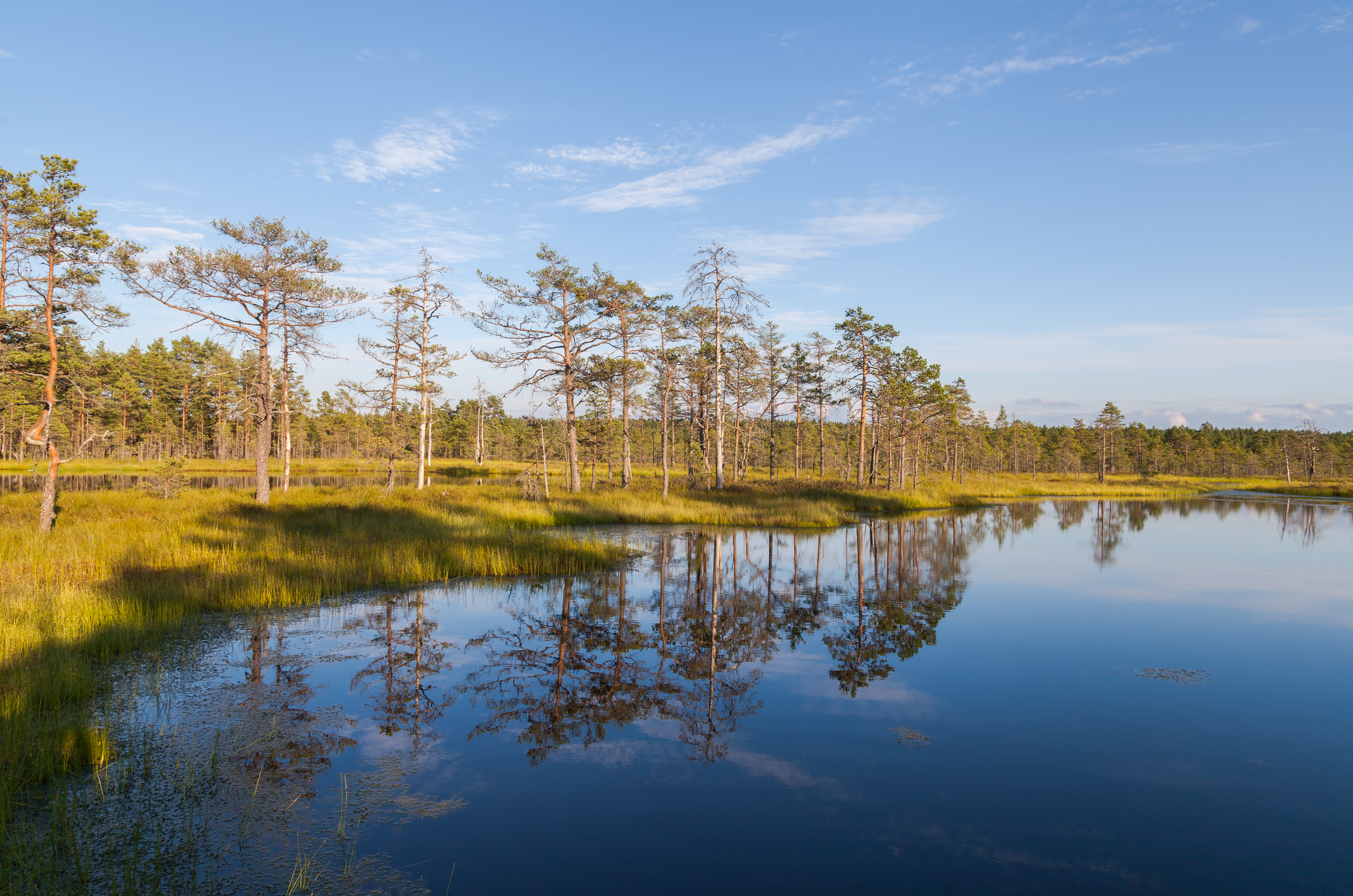 Viru bog, Lahemaa National Park, Estonia